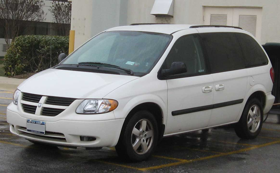 2007 Dodge Caravan photographed in College Park, Maryland, USA.